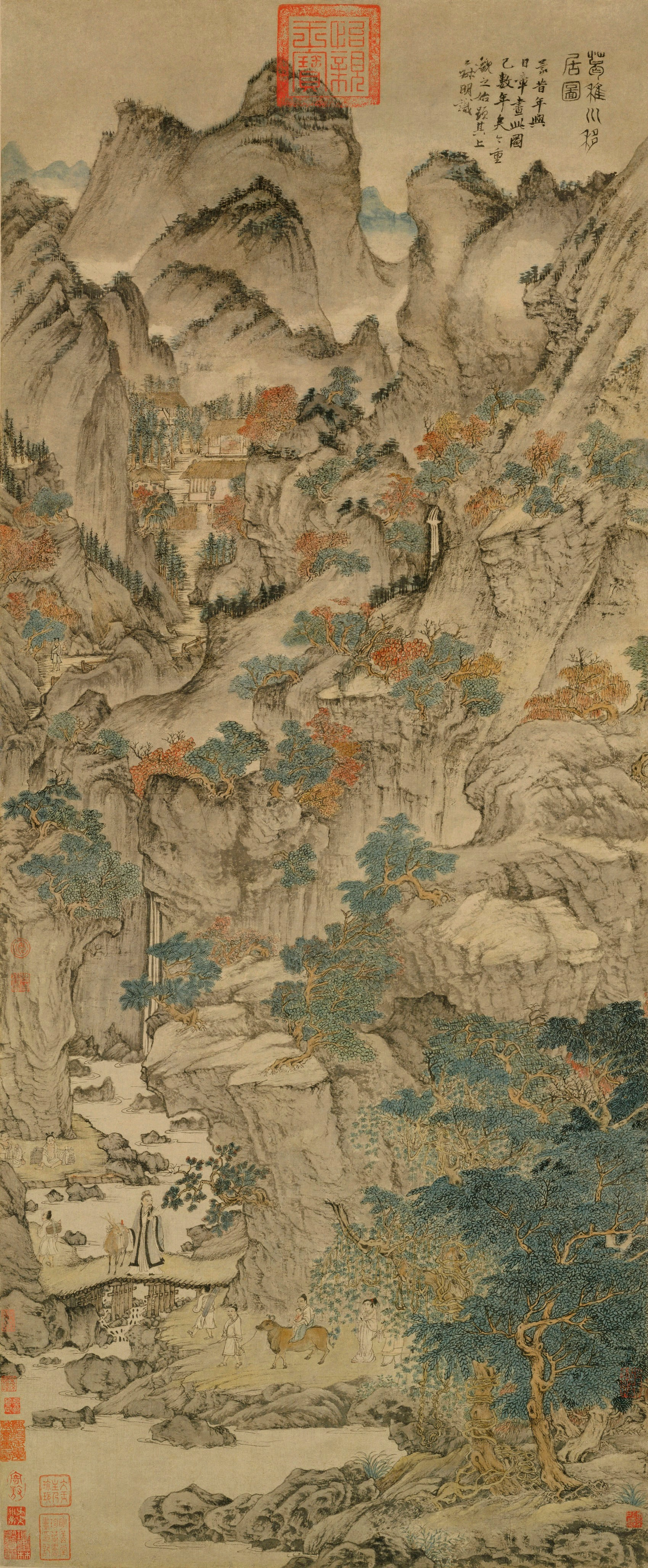 Wang_Meng._Ge_Zhichuan_Moving_his_Dwelling. ca. 1360s 139x58cm Palace Museum (Forbidden city), Beijing.